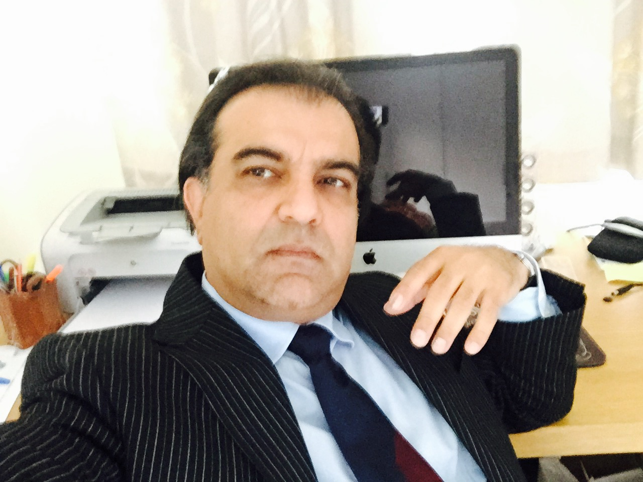 Vish Dhamija, author